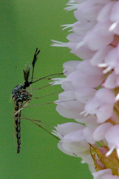 Picture taken in Commanster, Belgian High Ardennes . Species: male Ochlerotatus punctor